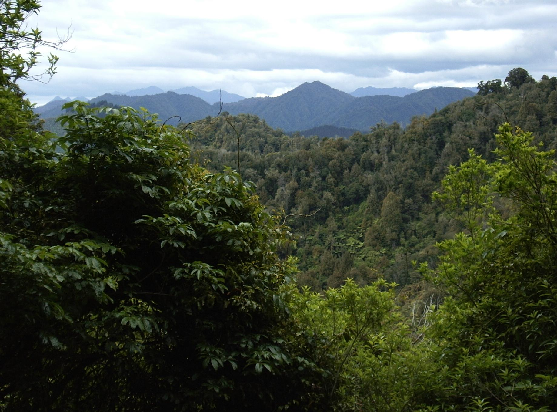 Deep In Te Urewera National Park, looking towards East Cape, New Zealand